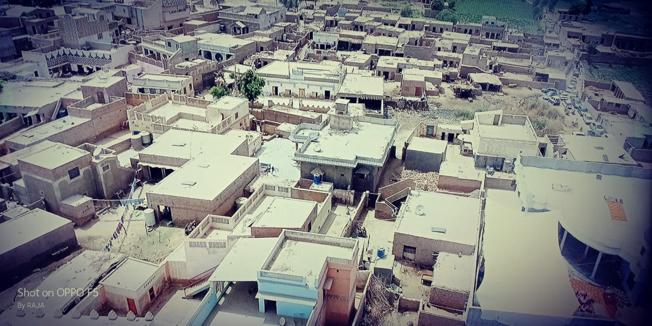 This Picture of Village Moosa Panhwar